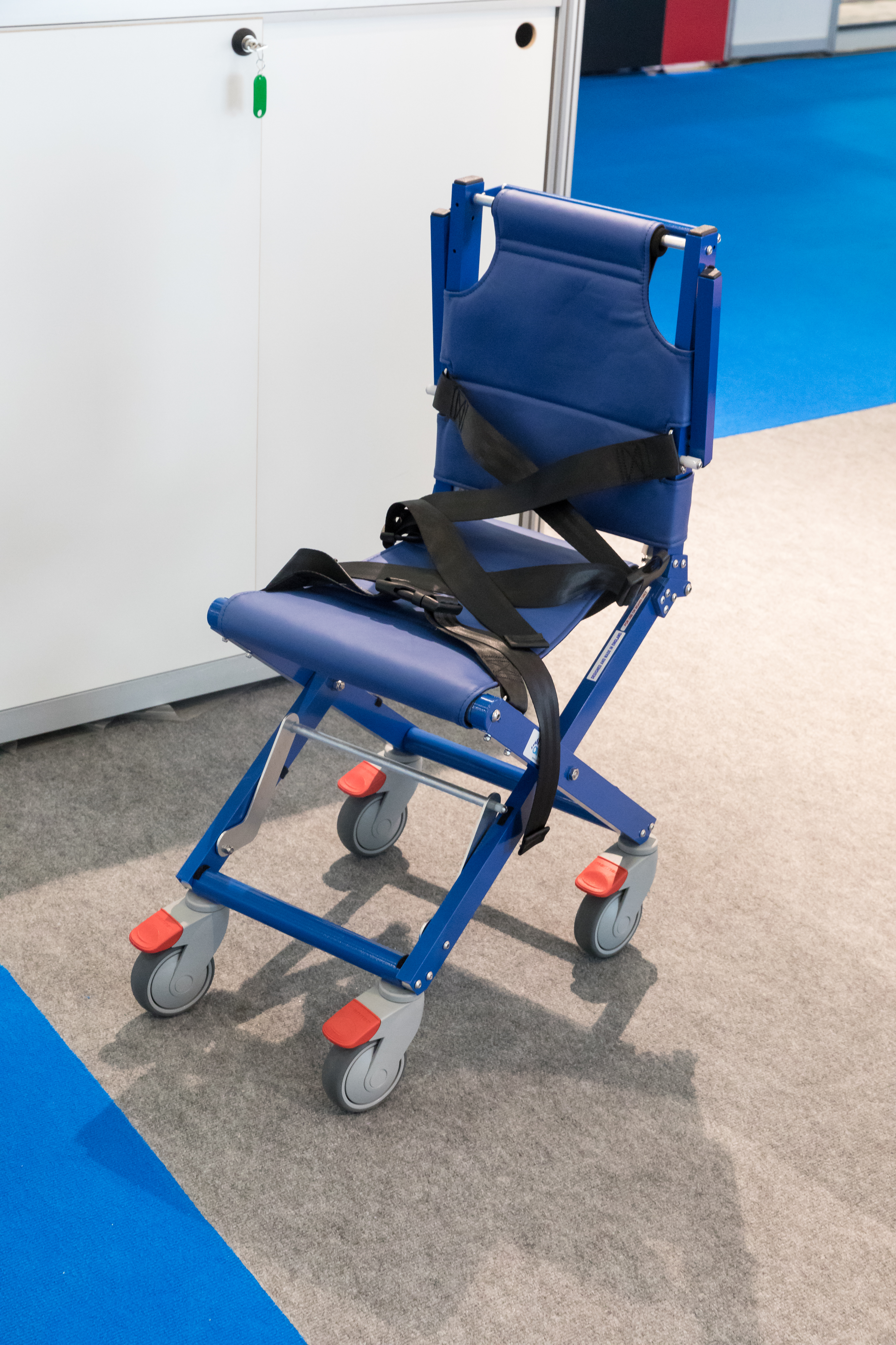 Passenger Experience Week 2018, Hamburg